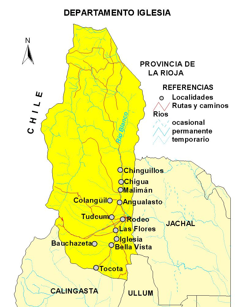 Maps of Iglesia Department, San Juan Province, Argentina